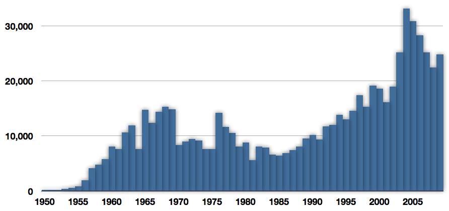 Fisheries recorded capture of Indo-Pacific sailfish (Istiophorus platypterus) from 1950 to 2009. Data source FAO fisheries